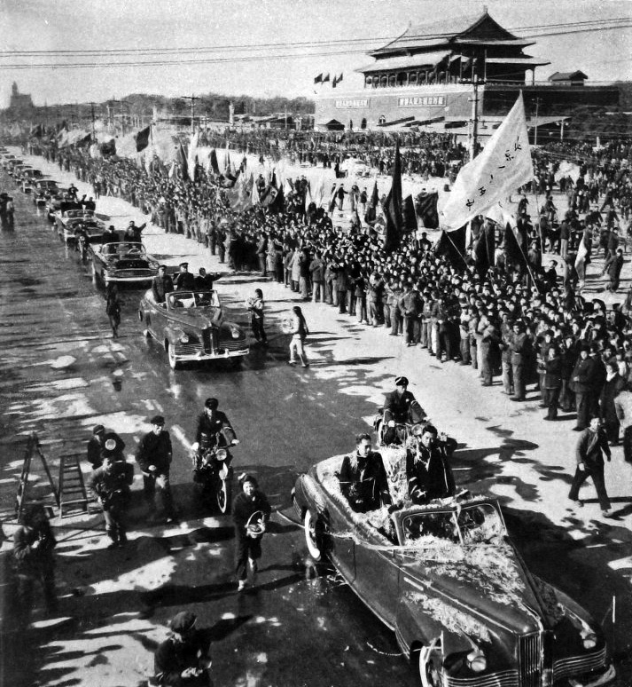 Kim Il-sung's motorcade in front of Tian'anmen